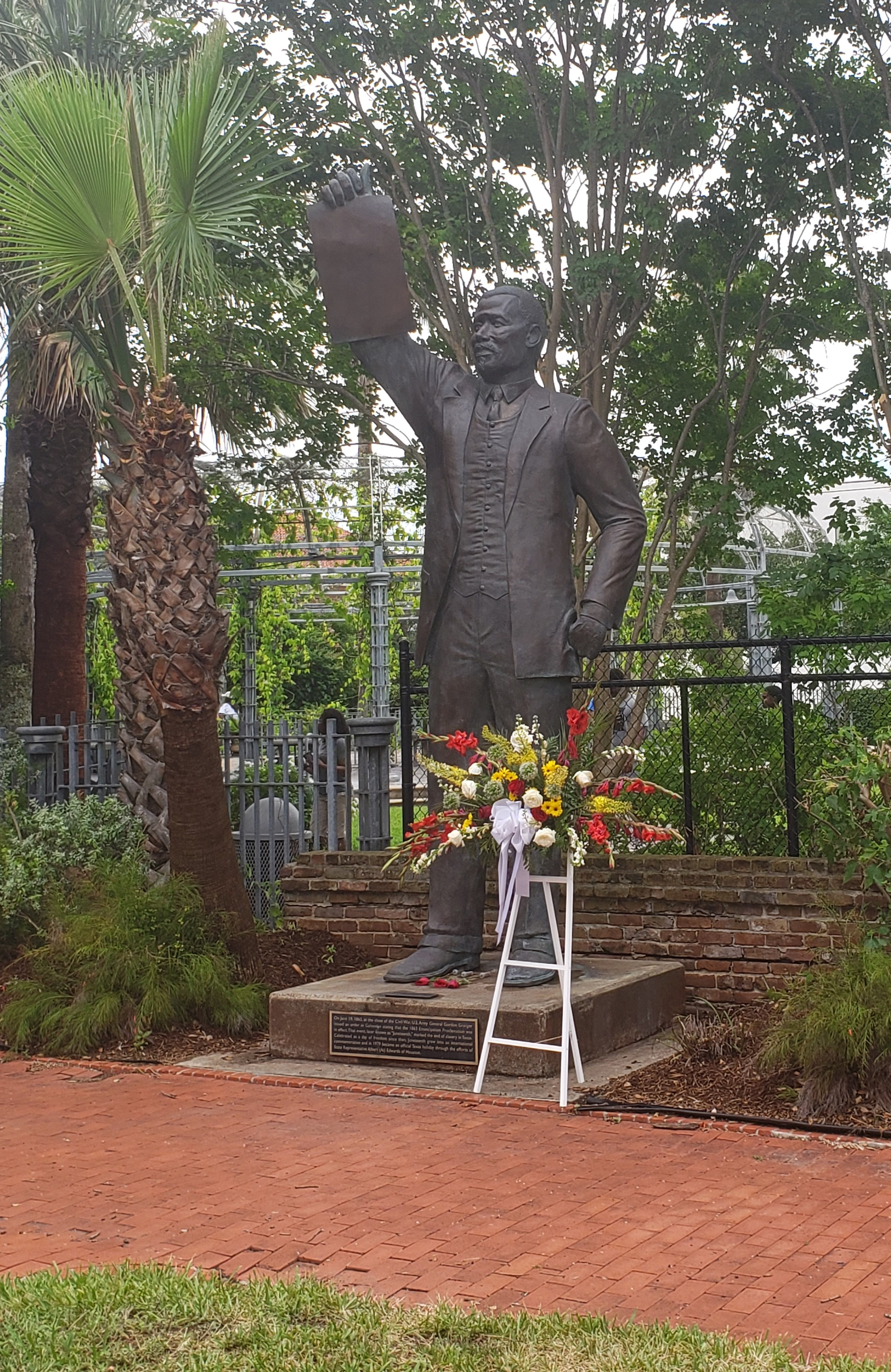 Al Edwards "Unknown Legislator" statue of the Texas State Legislator holding up the 1979 legislation making Juneteenth a paid Texas state holiday. The statue was dedicated on the grounds of Ashton Villa on Juneteenth 2006 at Ashton Villa, the location of the annual Al Edwards Prayer Breakfast and Juneteenth Commemorative Celebration.